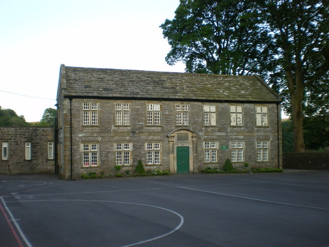 Brennands Endowed School, Slaidburn